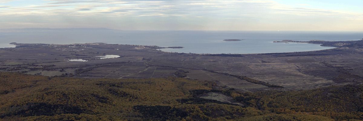 Panorama from peak Bakurluka, Bulgaria